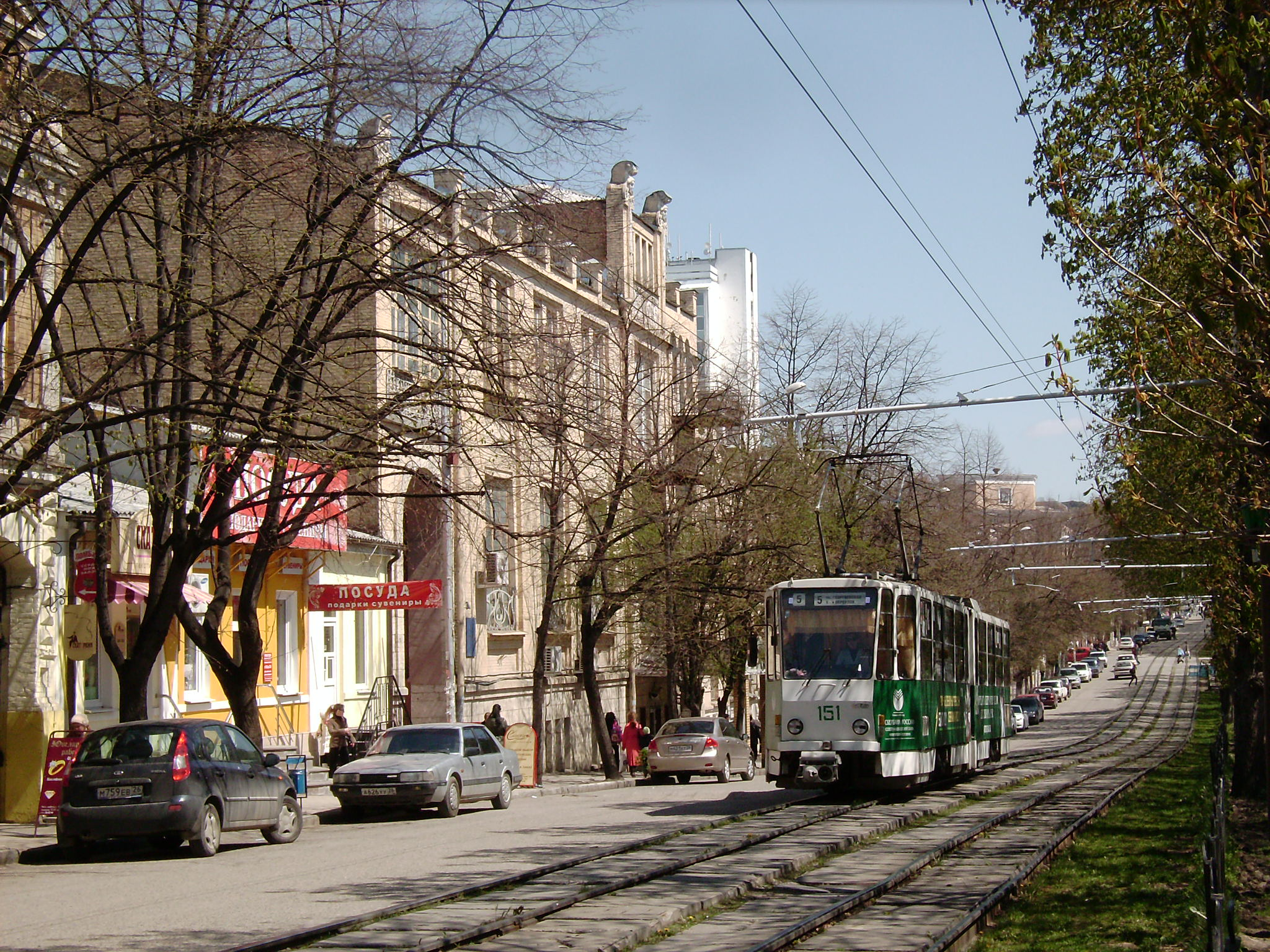 A tram in Pyatigorsk on Kirova avenue